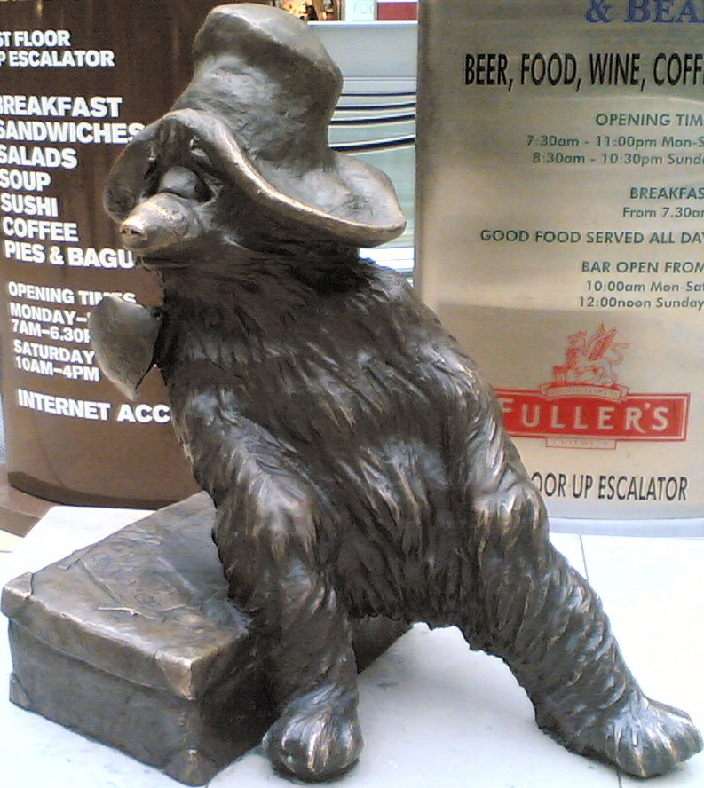 Life-size bronze statue of Paddington Bear, the fictional bear created by Michael Bond. The statue is by British sculptor Marcus Cornish, and is based on the original book illustrations by Peggy Fortnum. It was unveiled in Paddington Station by Michael Bond in 2000.